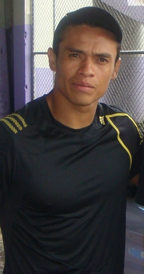 Walter Centeno